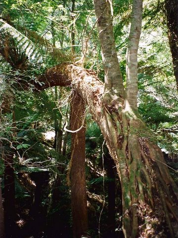 Eucryphia moorei & Soft Tree fern, (a hemiepiphyte) Monga National Park